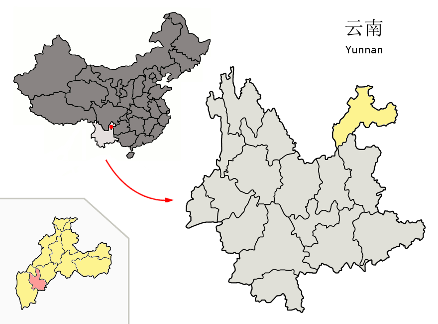 Location of Ludian County (pink) and Zhaotong Prefecture (yellow) within Yunnan province of China Map drawn in september 2007 using various sources, mainly : Yunnan province administrative regions GIS data: 1:1M, County level, 1990 Yunnan Counties map from Zhaotong Prefecture administrative map from .au